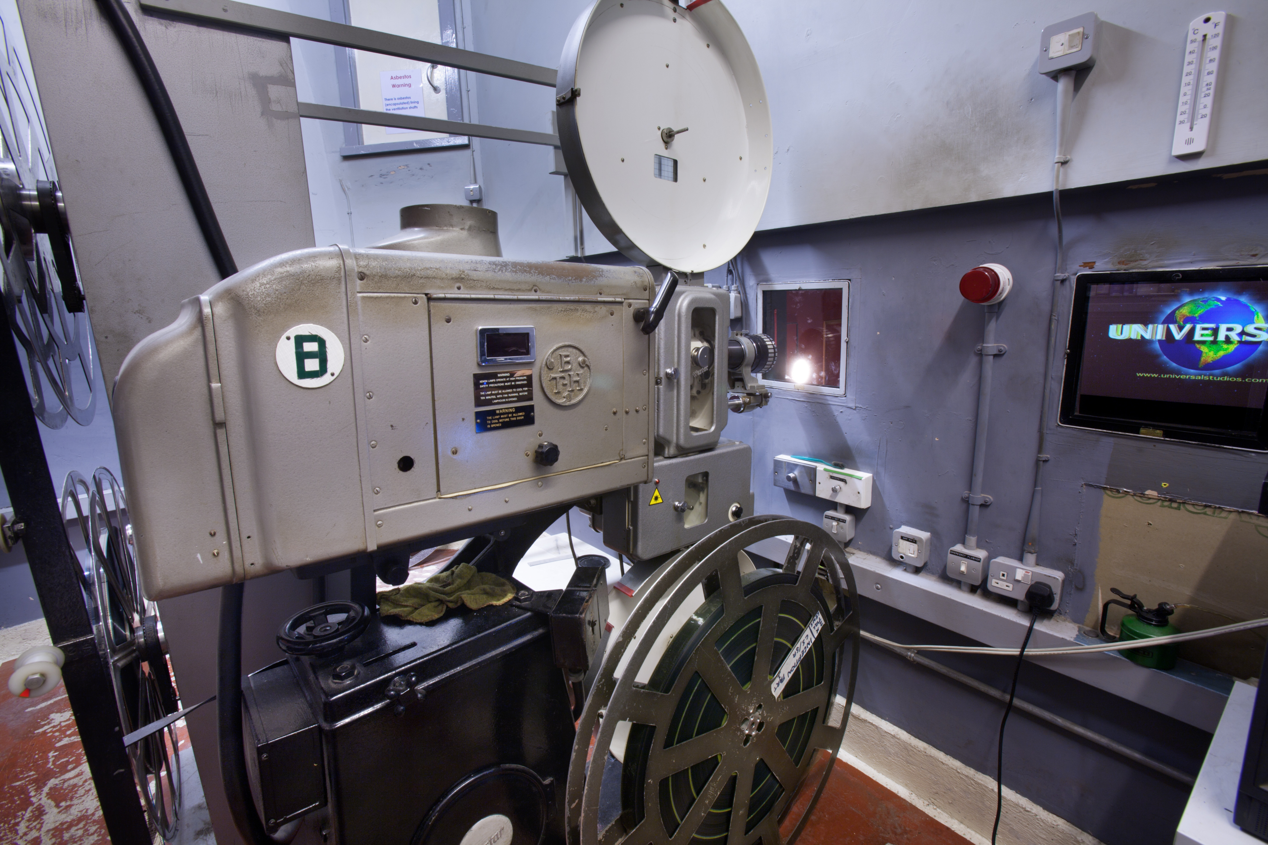 Ultimate Palace Cinema, Oxford